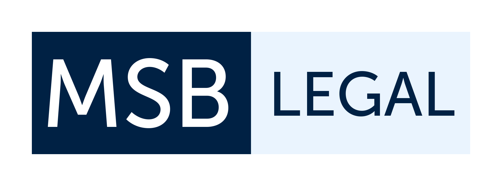 Logo of MSB Legal company as of 2019